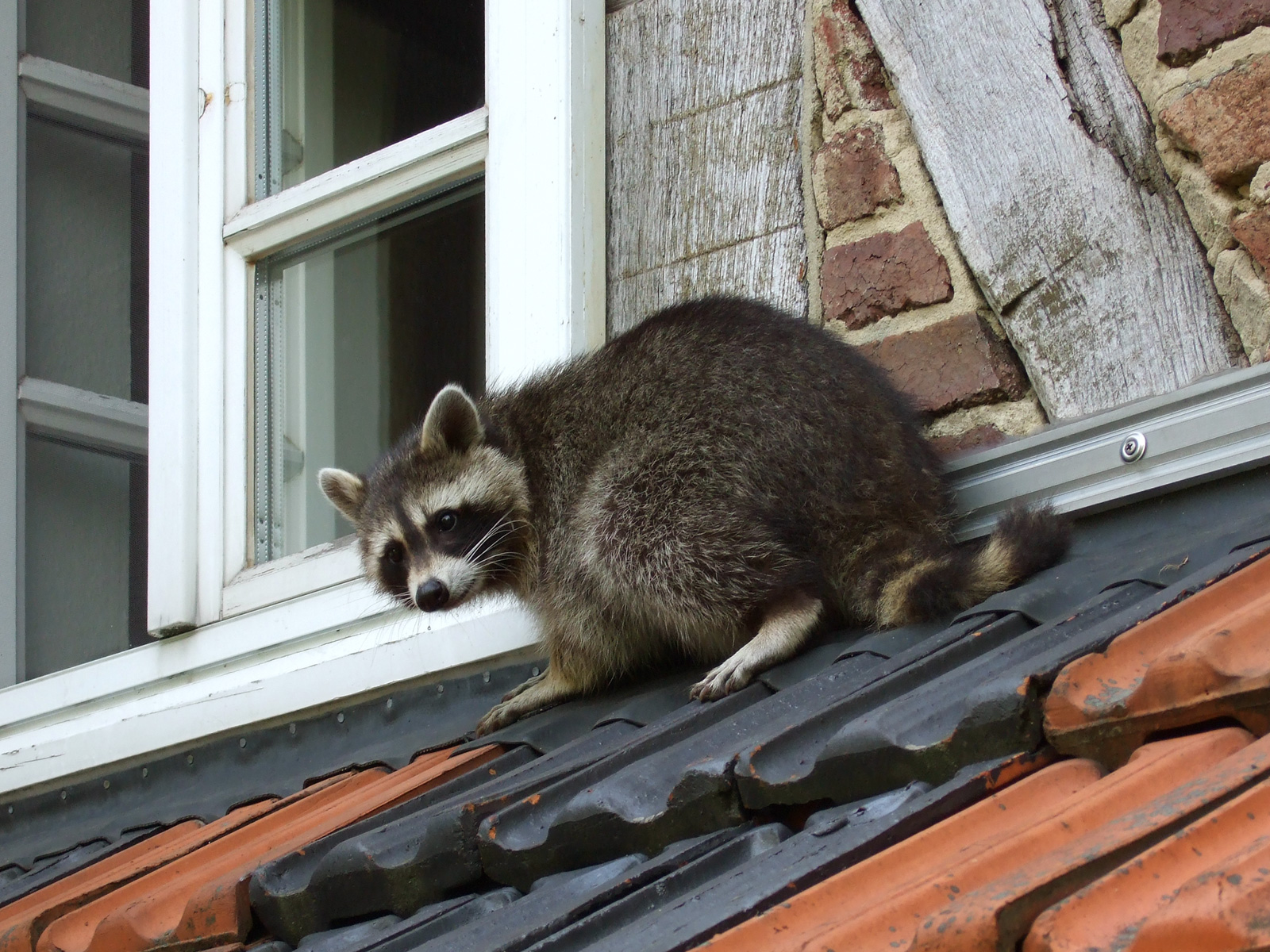 A raccoon in the early morning on the roof of an apartment house.)